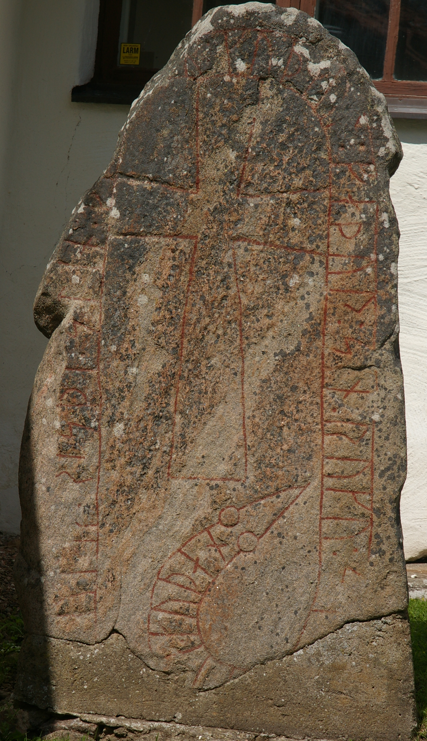 Runestone vg 139 outside Vårkumla kyrka (Swedish:Church of Vårkumla) in Västergötland, Sweden.